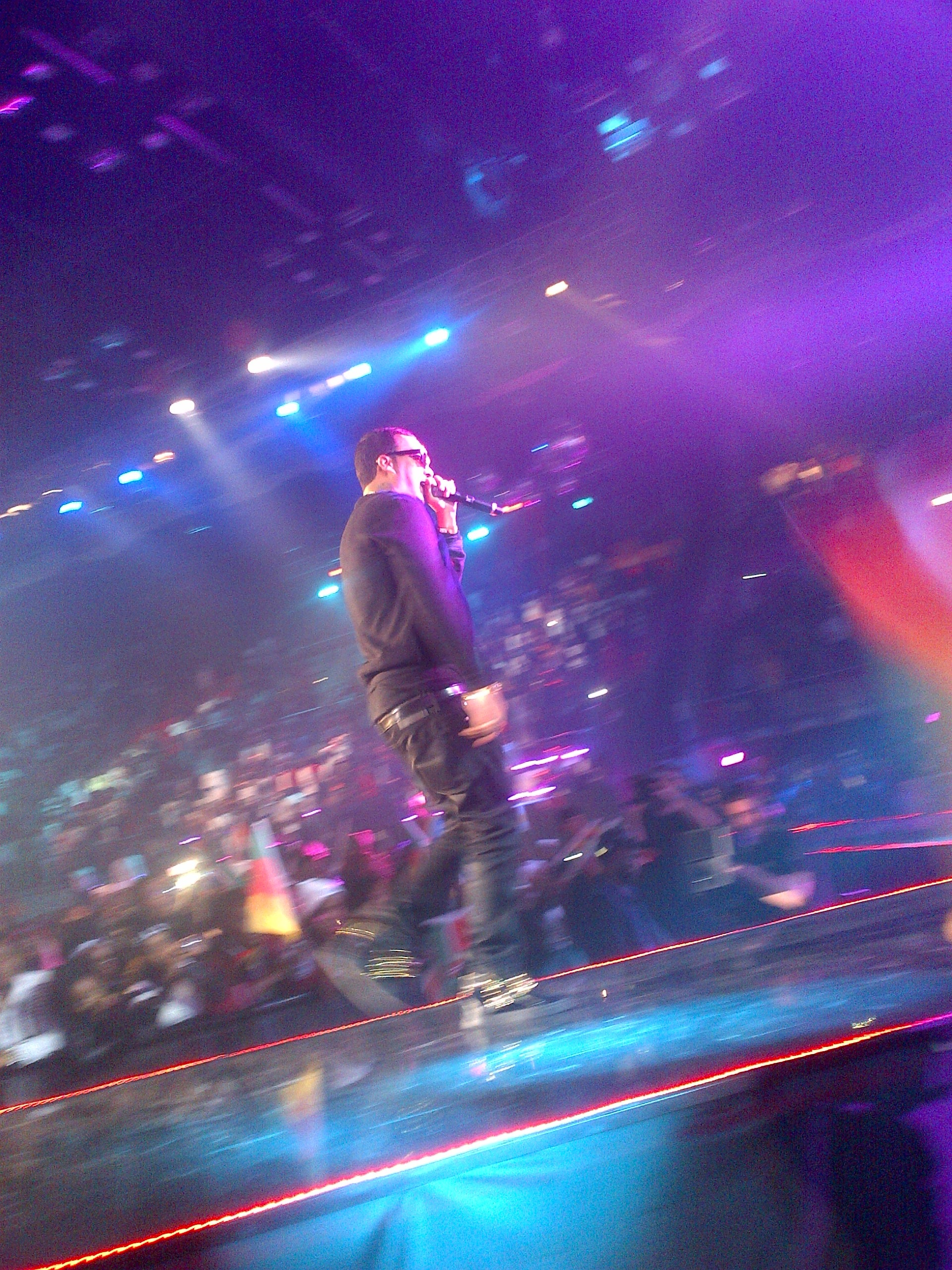 French Montana at ICC Durban 2014